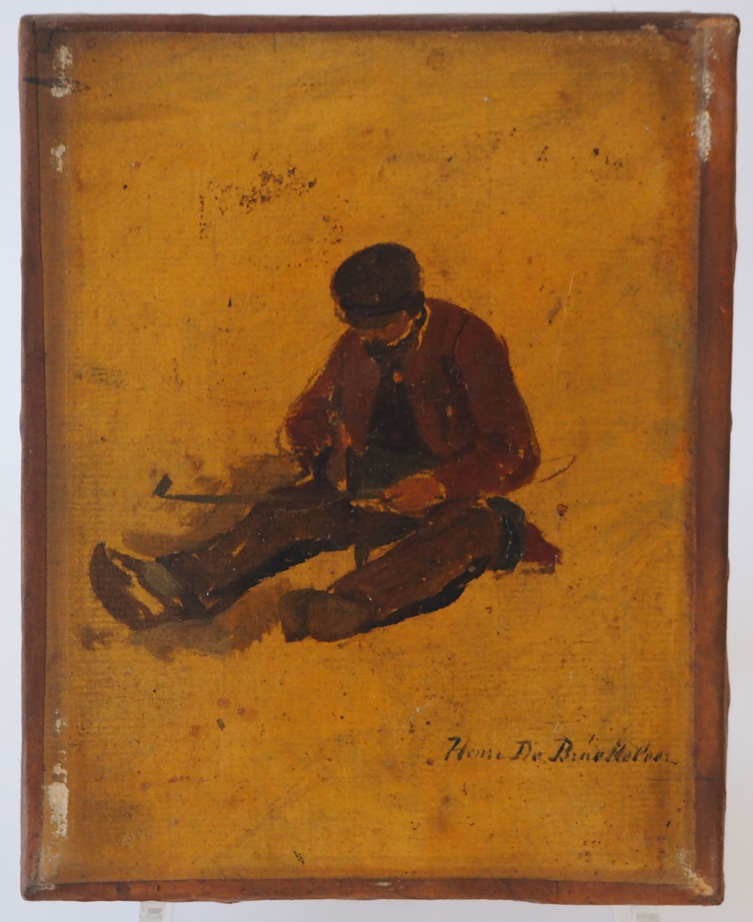 Painting on canvas, size 19 cm x 15 cm, signed 'Henri De Braekeleer' showing a male person sitting on the floor, at work.